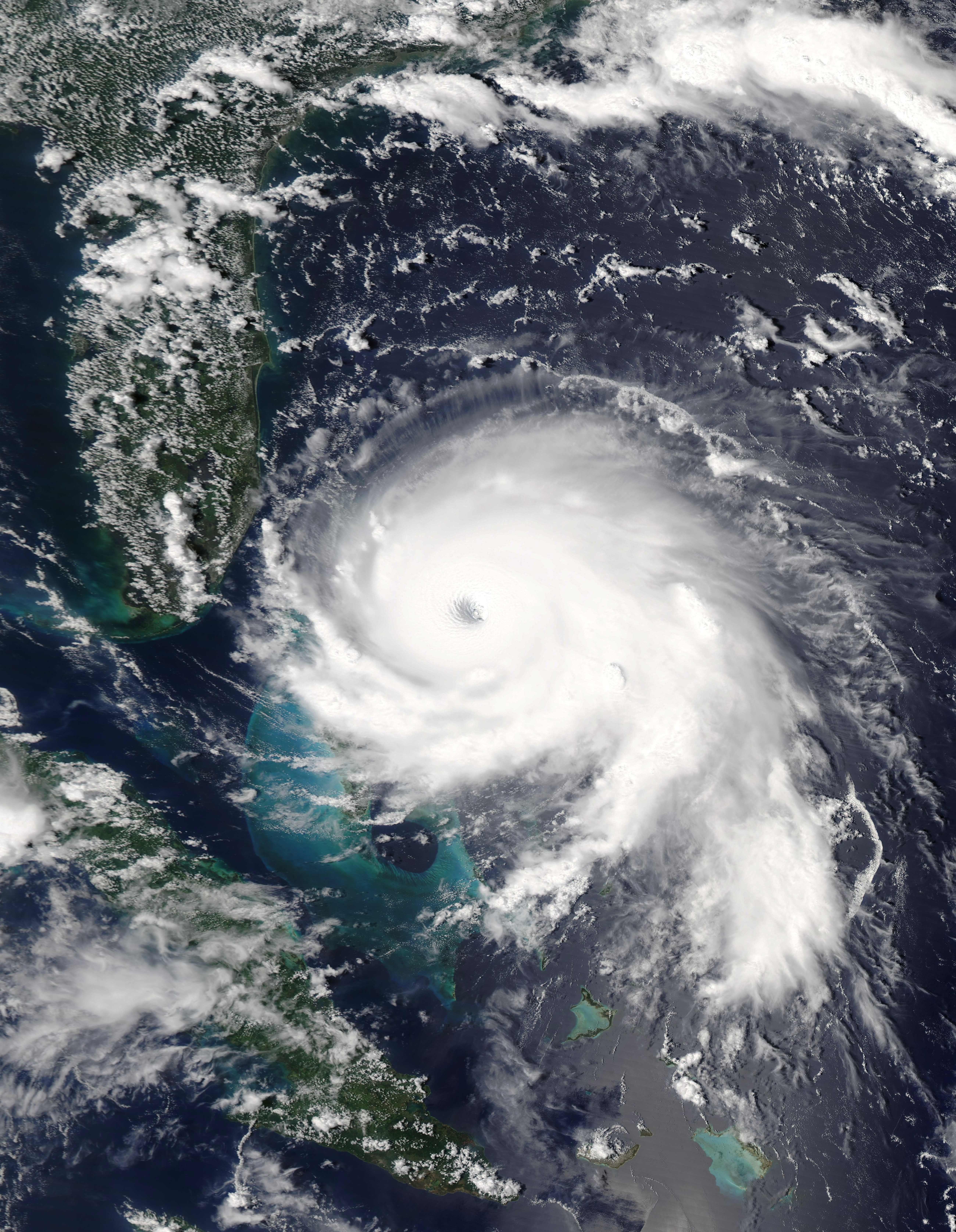 Hurricane Dorian on September 1, 2019